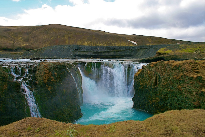 Sigöldufoss, near Sigalda power station, on the original course of the Tungnaa